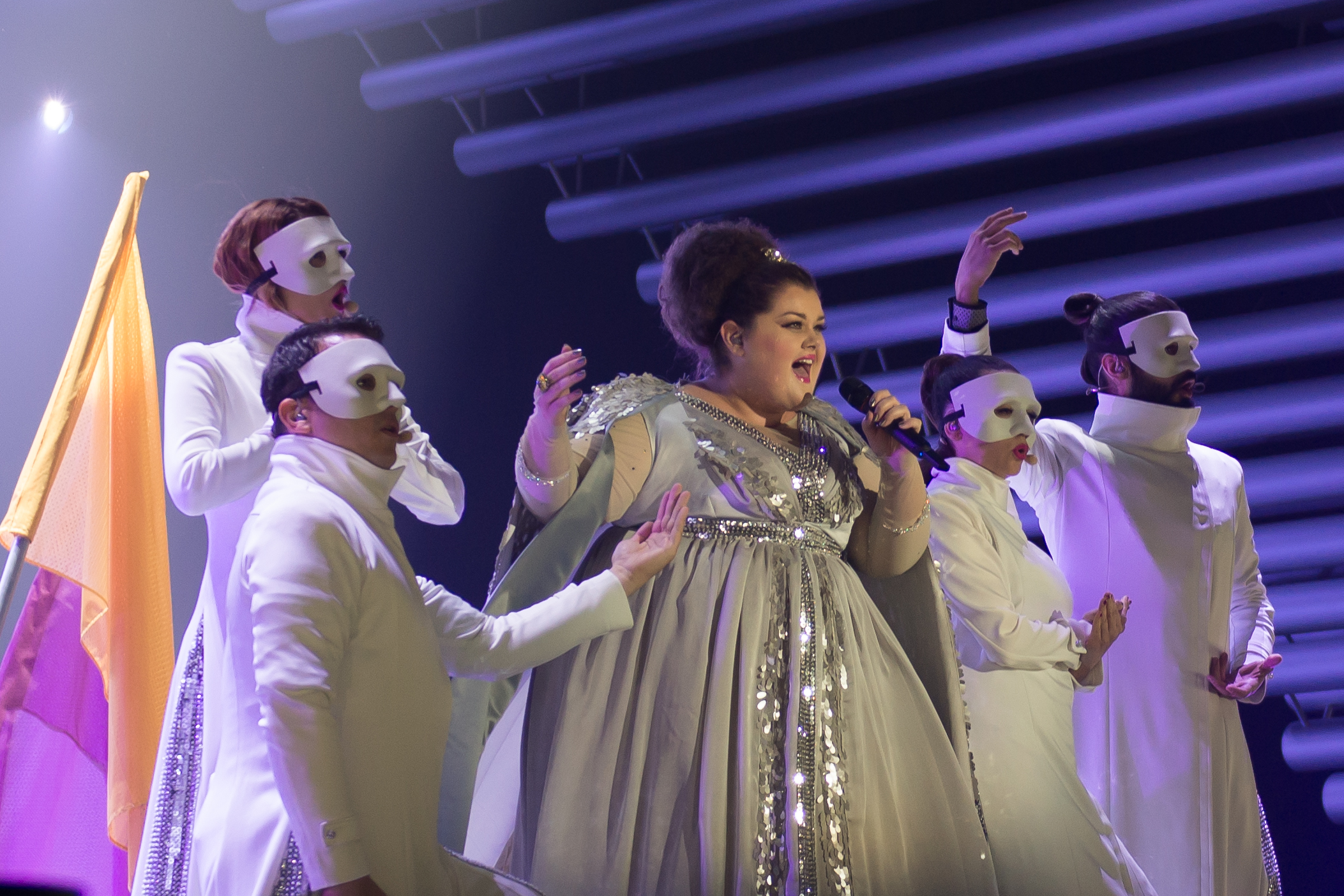 Eurovision Song Contest Vienna 2015: Bojana Stamenov